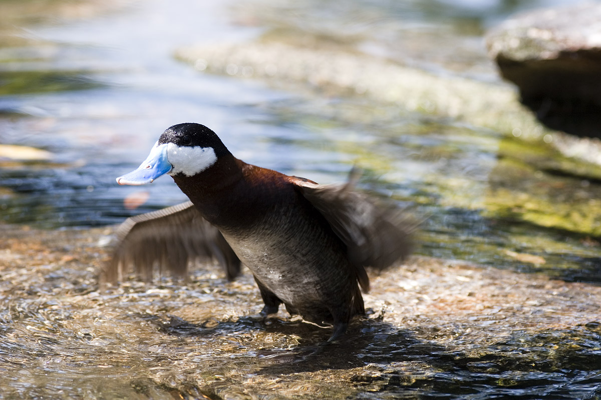 This little duck was frantically flapping its wings in some shallow water. Sea World, Orlando.